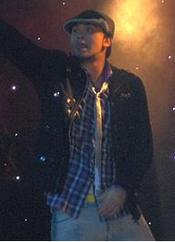 Shot of Billy during a concert w/ Sarah Geronimo in London in November 2009.